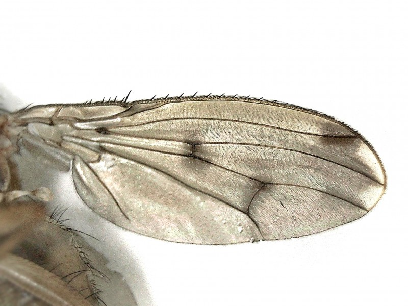 Suillia variegata (Heleomyzidae) - (imago), Arnhem - Zuid - spoordijk, the Netherlands